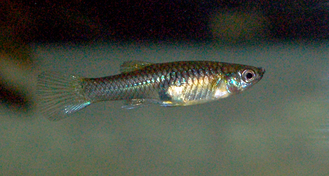 Poecilia wingei female